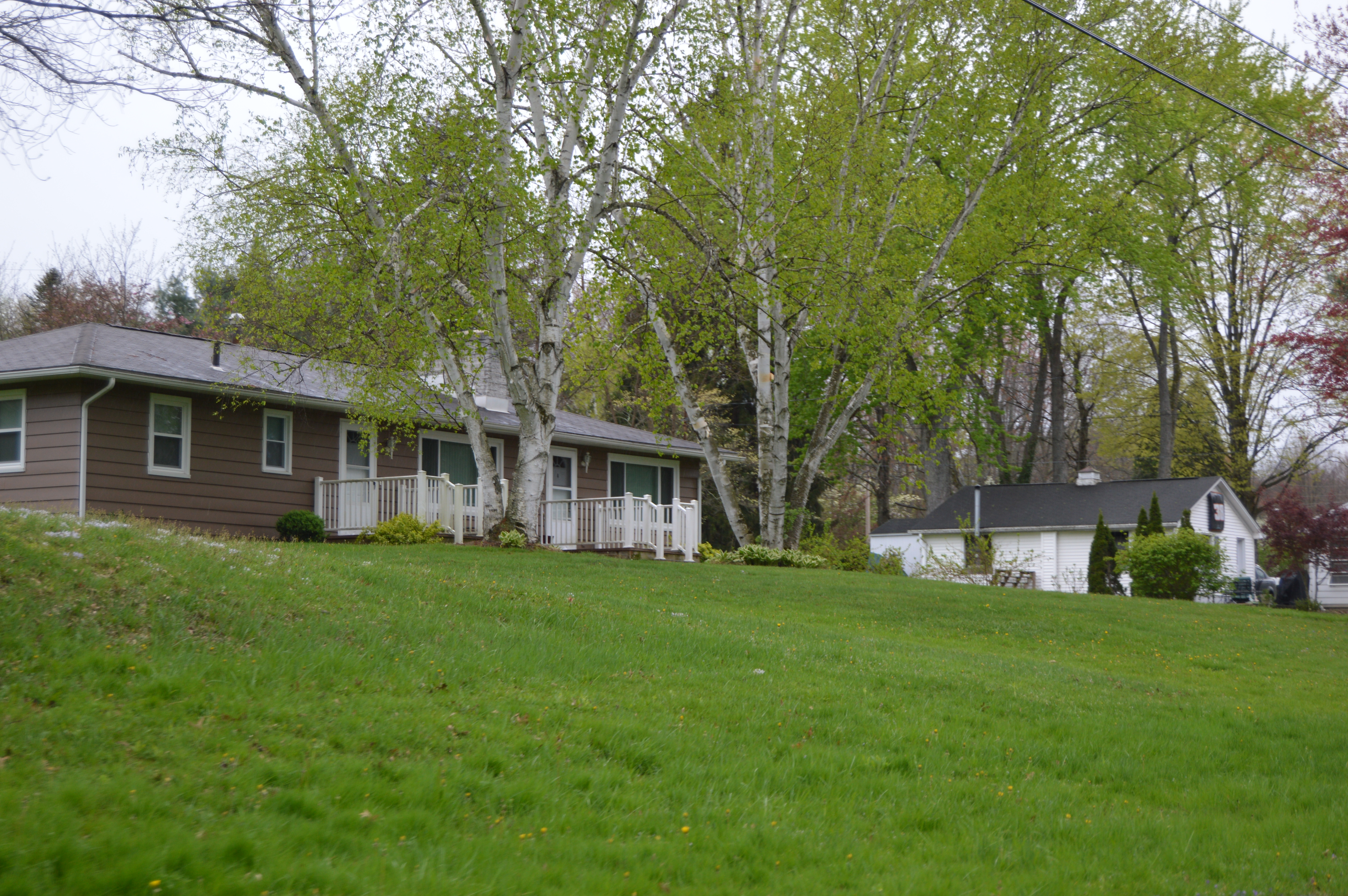 Houses on the southern side of Brockway Avenue between First and Second Streets in Yankee Lake, Ohio, United States.